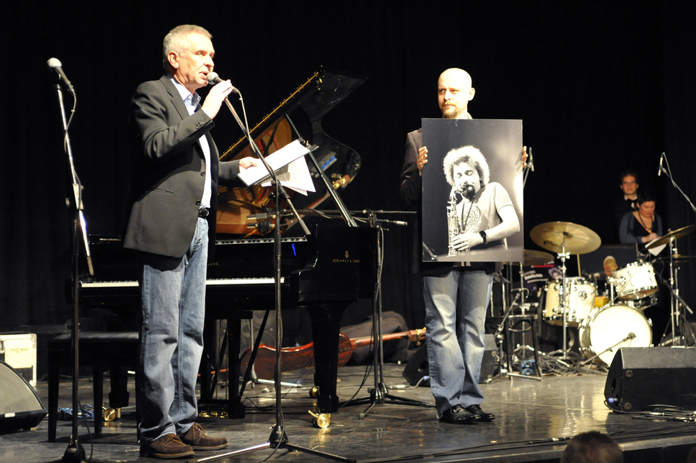 A benefit concert for Tomasz Szukalski, Polish saxophone player.